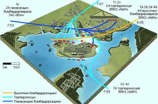 События в бухте Перл-Харбор во время первой волны японского авиаудара.